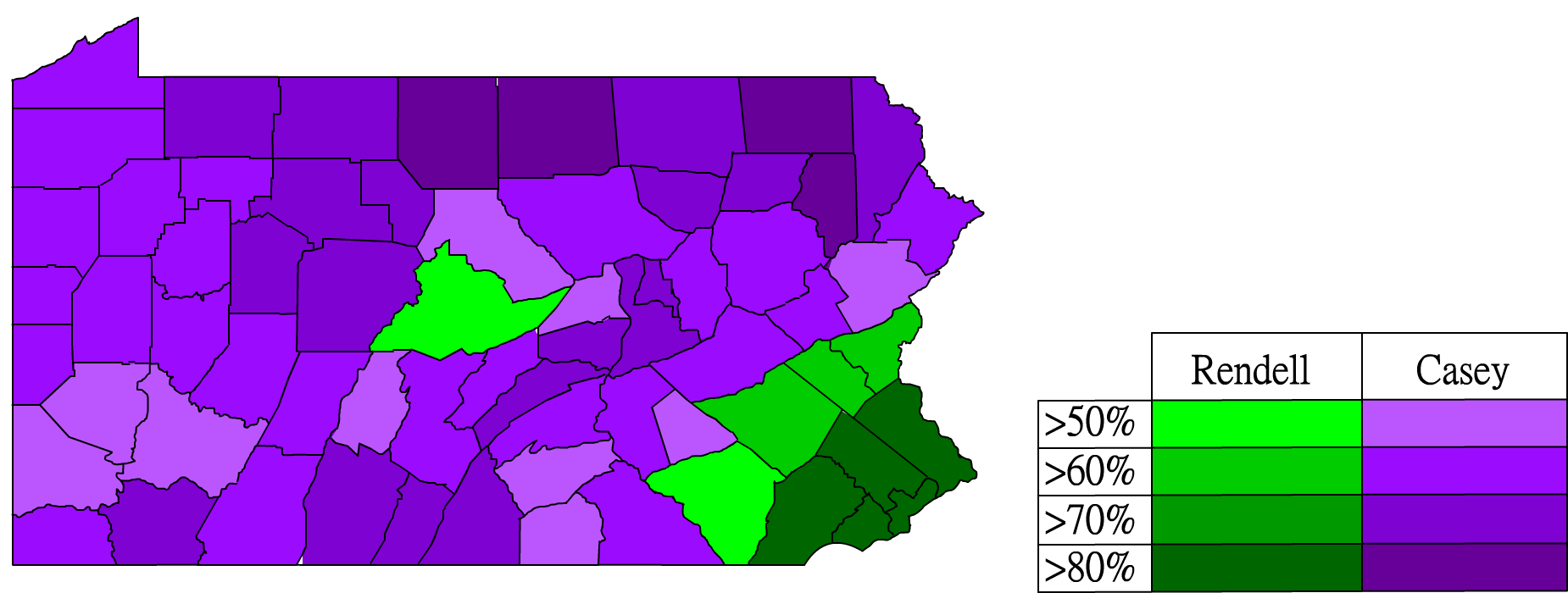 Pennsylvania gubernatorial election, 2002 - Democratic Primary